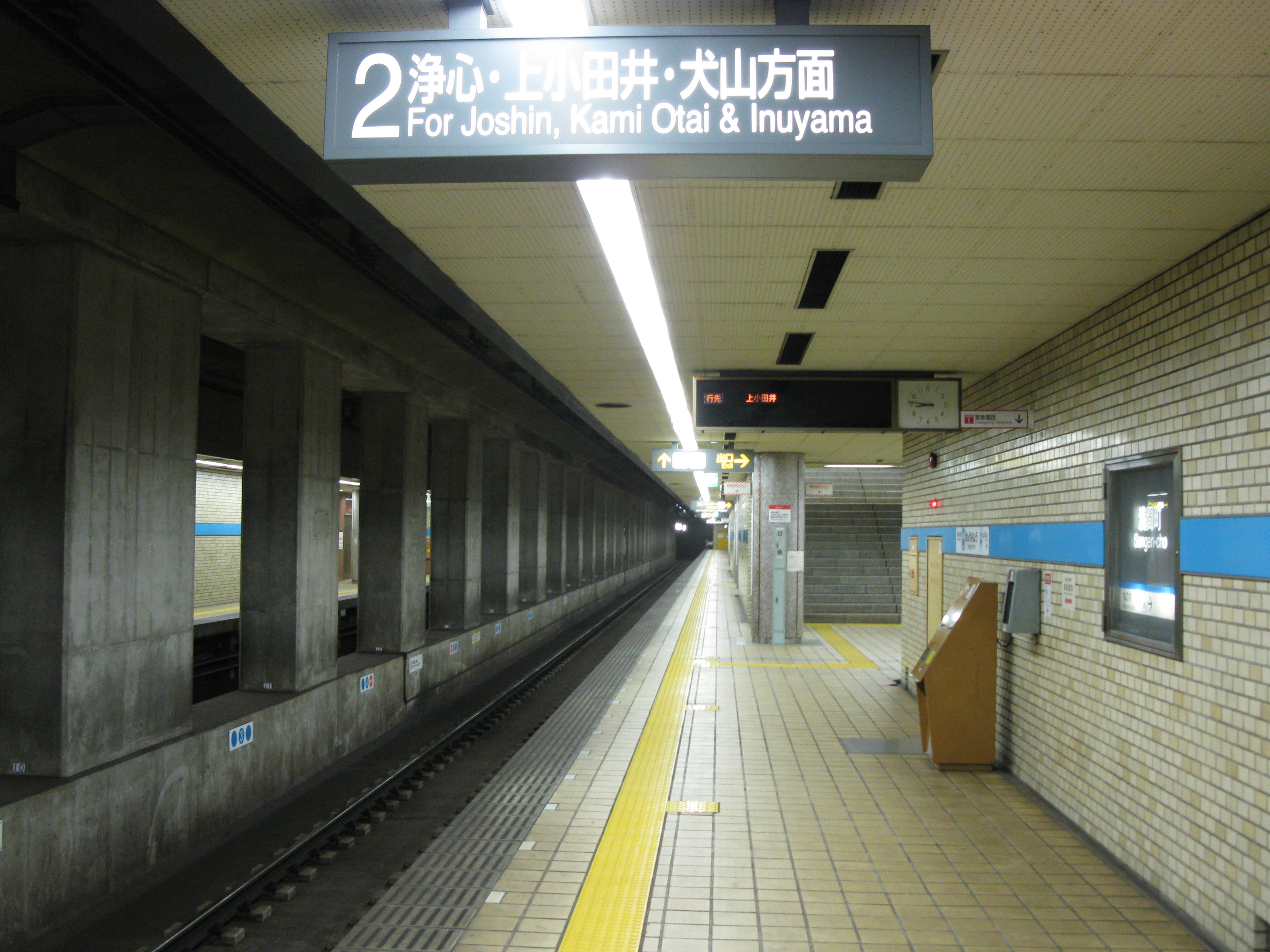 Sengen-chō Station platform (Nagoya Municipal Subway Tsurumai Line)